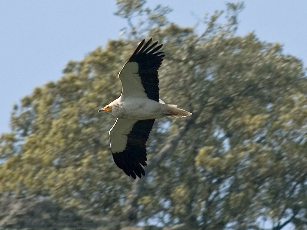 Egyptian Vulture in flight.